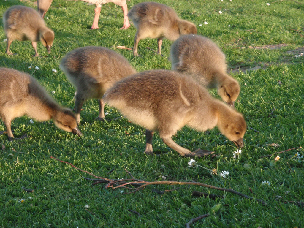 Greylag goose young, University of York